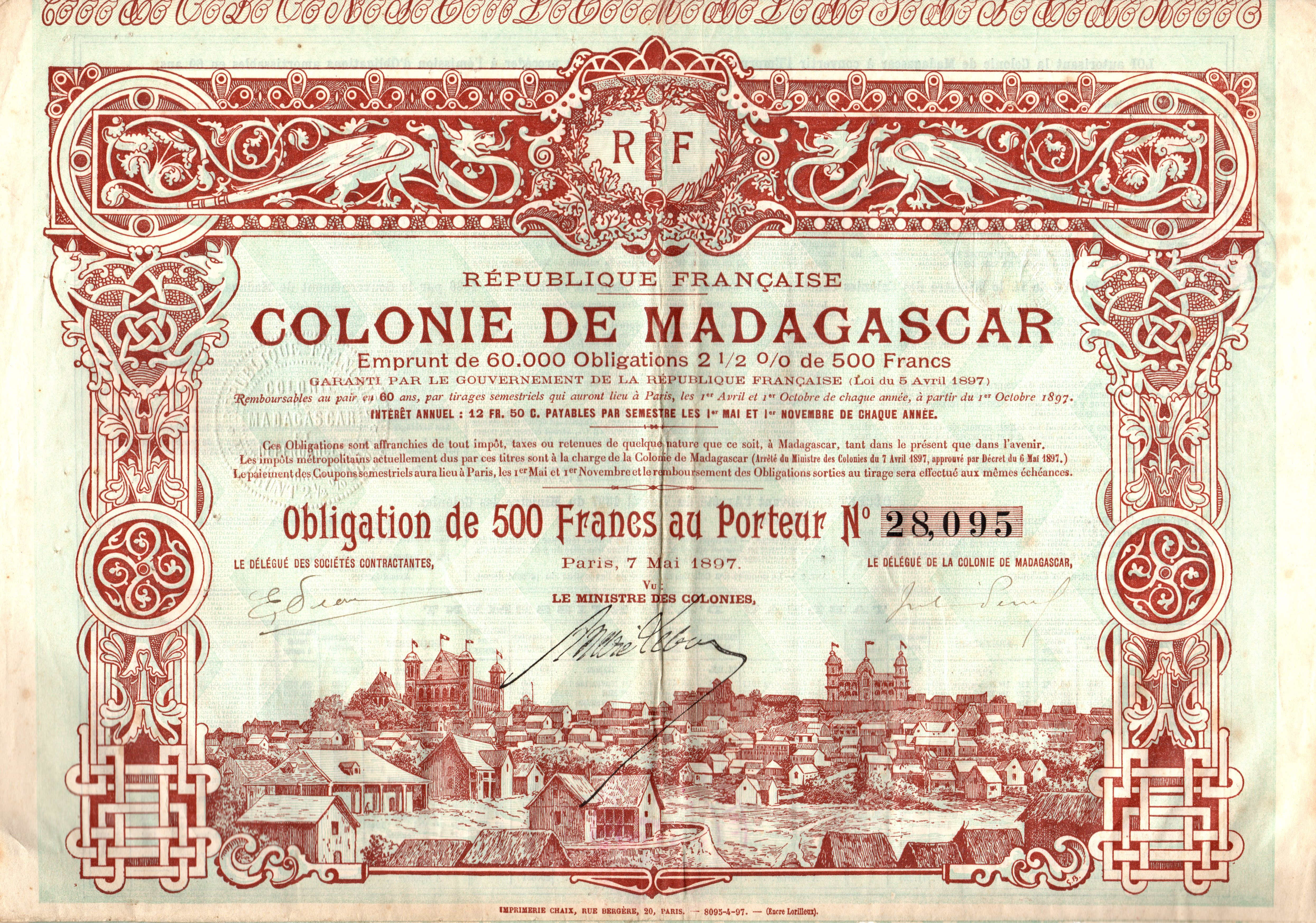 Bond of the french colony Madagascar, issued 7. May 1897